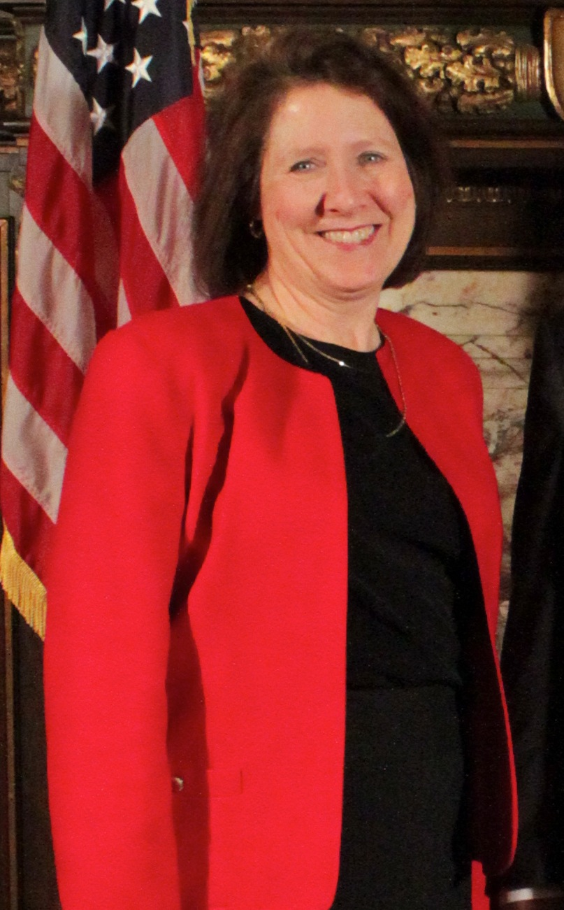 Minnesota State Senator Mary Jo McGuire.